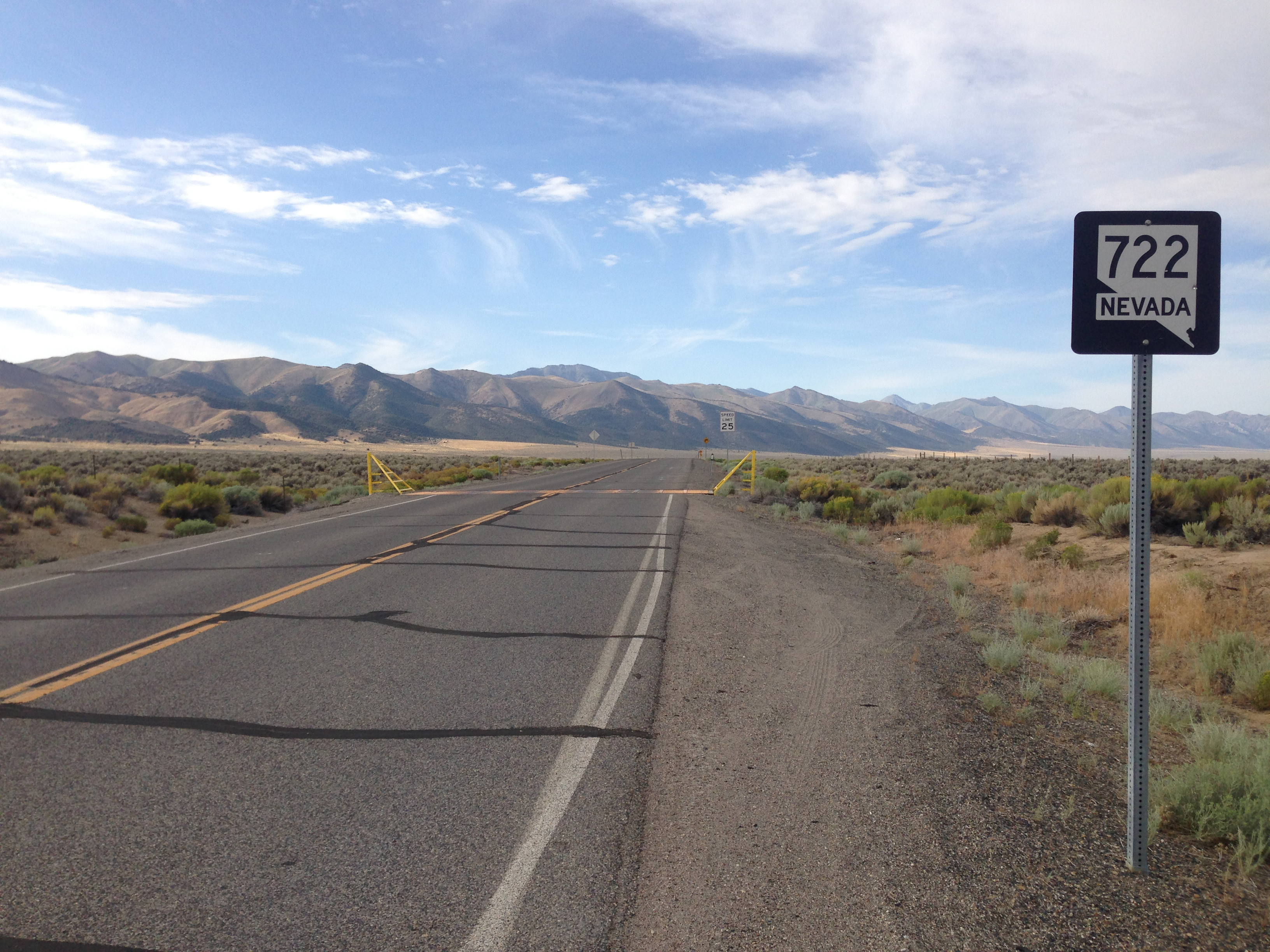 First reassurance sign along westbound Nevada State Route 722 (Carroll Summit Road) about 41.4 miles east of the Churchill County line in Lander County, Nevada